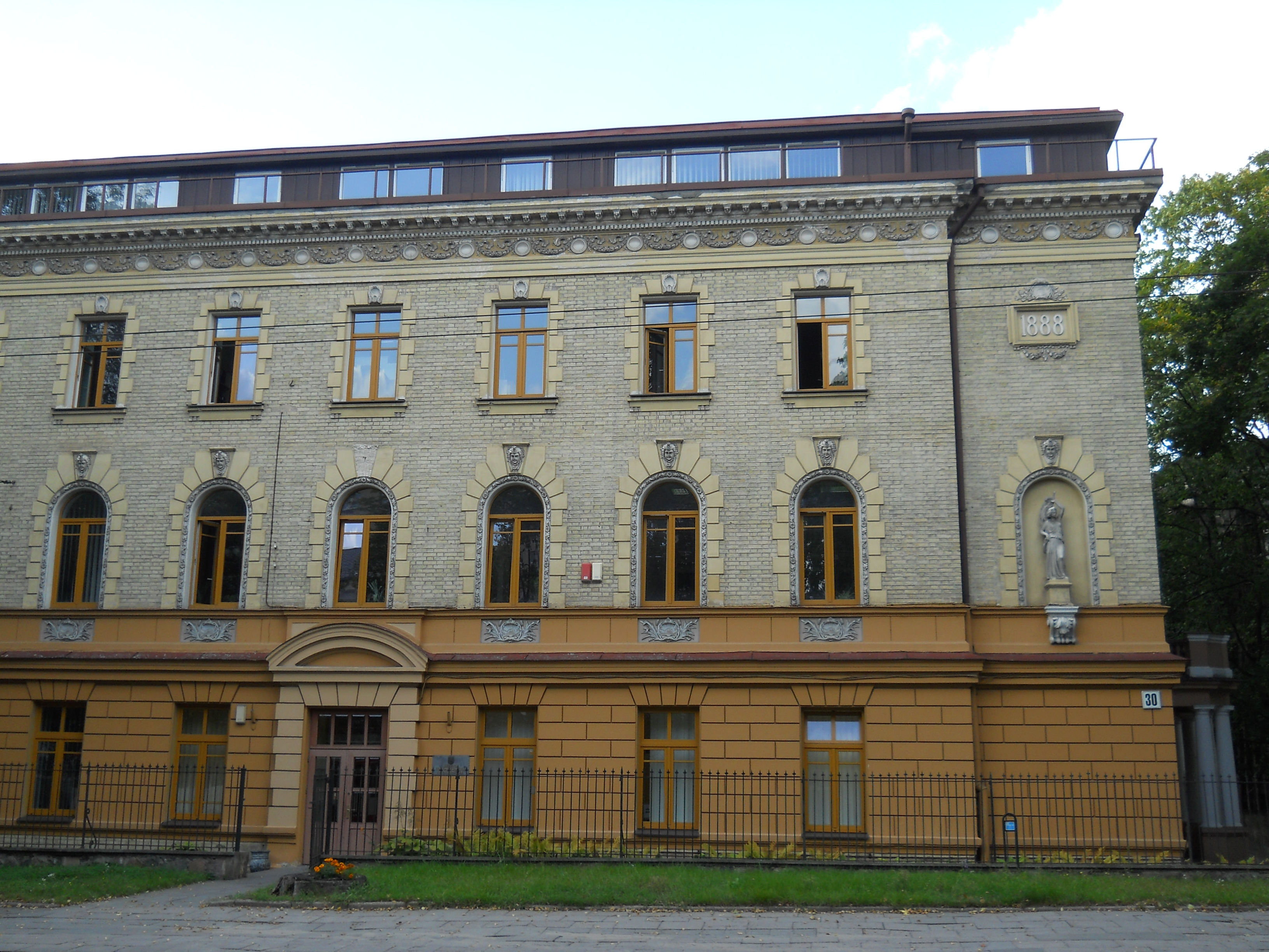 T. Kosciuškos Street 30